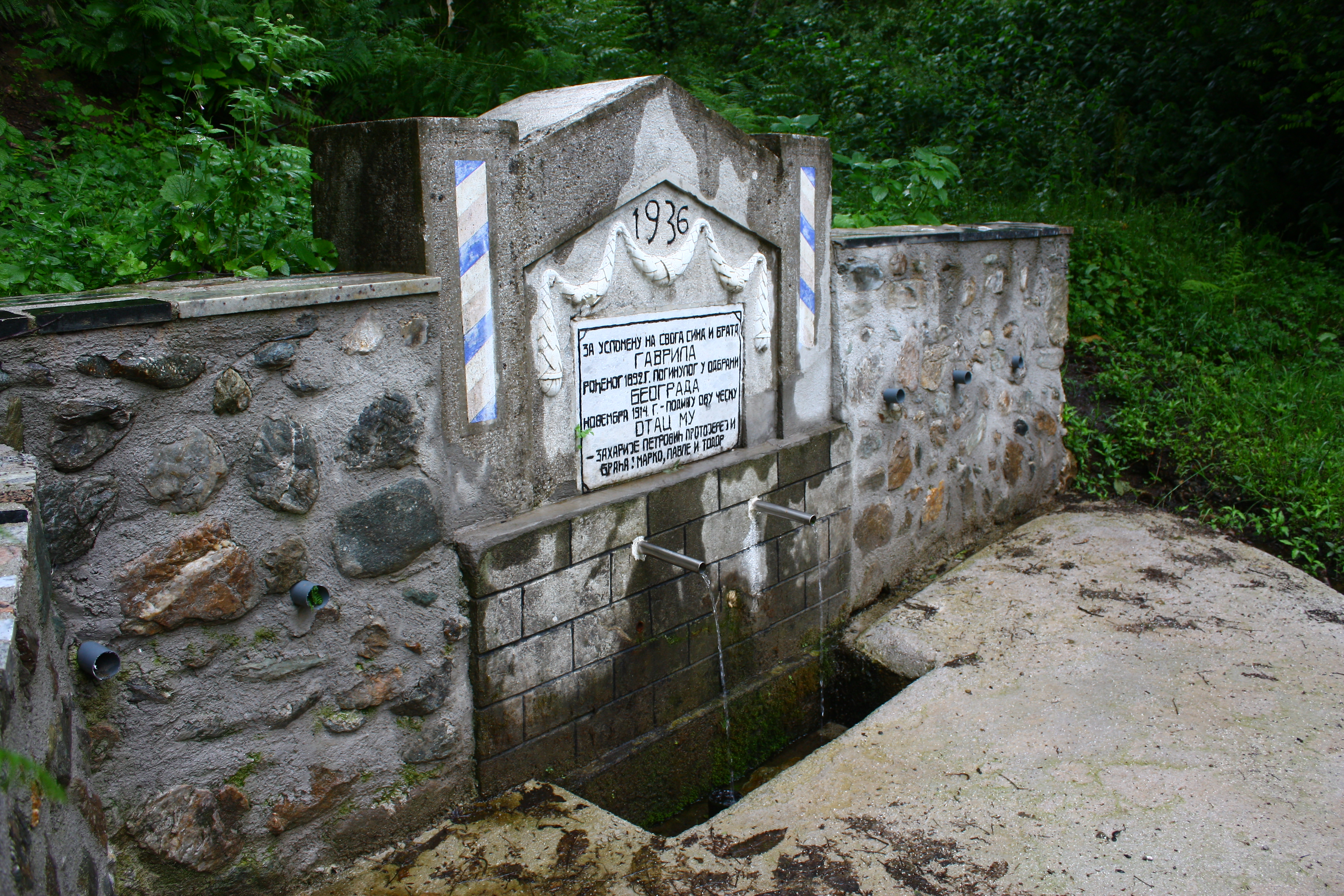 Village of ‚Požarane, Macedonia